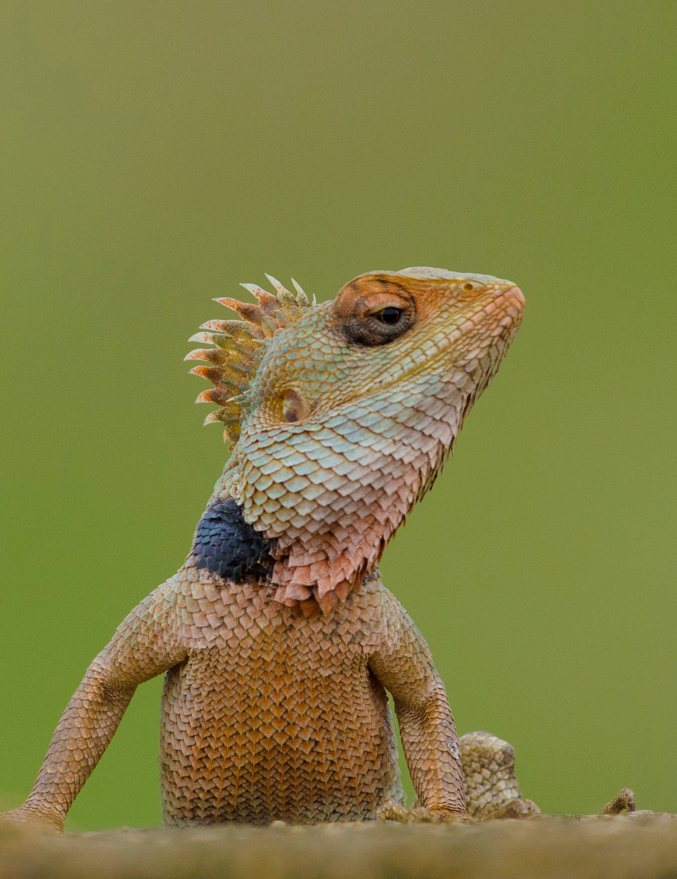 Oriental garden lizard, known as calotes versicolor recorded from Bangalore, India.